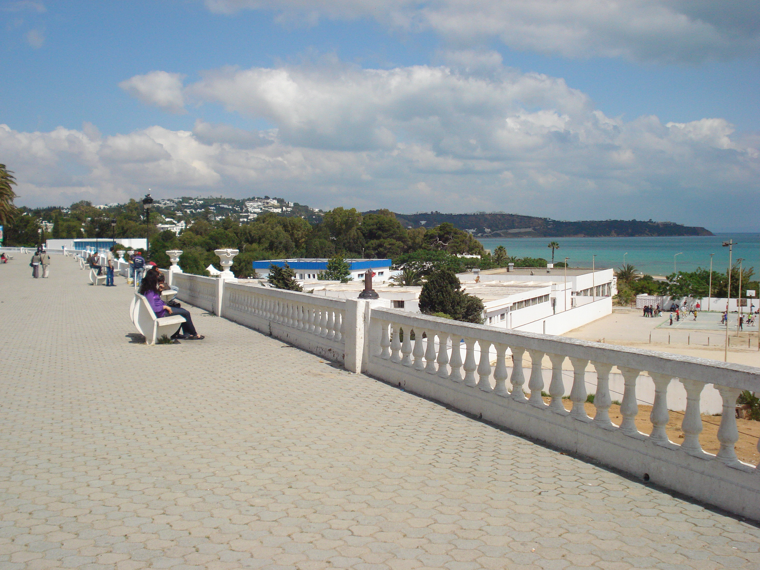 ِCorniche of La Marsa Plage, Tunisia